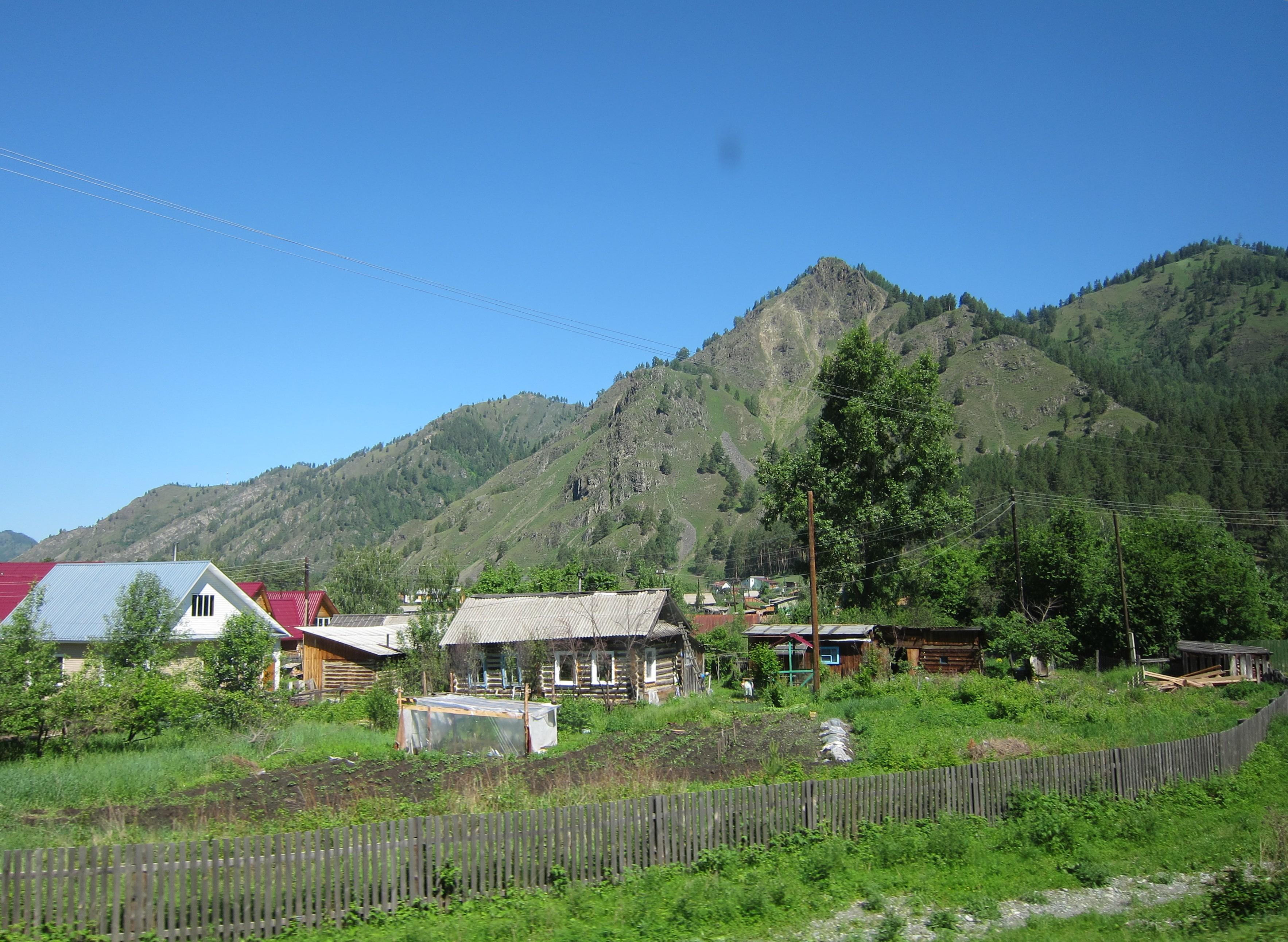 Uznezya settlement in Chemalsky District of the Altai Republic, view from the bus window